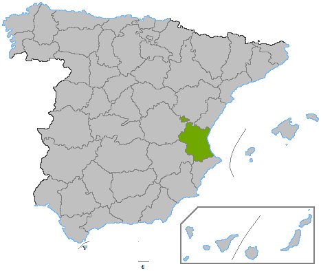 Location of the province of Valencia, in Spain. Basado en: ProvPont.jpg Source: Designed by Satesclop. Original picture, designed by Sobreira.